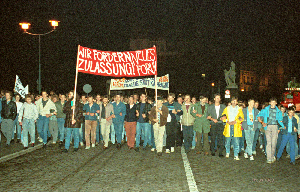 "Monday demonstration" against the political system of the GDR